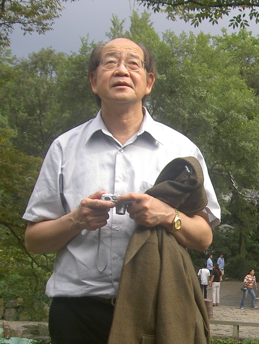 Yum-Tong Siu, In "The Humble Administrator's Garden (Zhuozheng Yuan)", Suzhou, September 2006